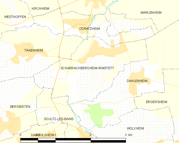 Map of French municipality